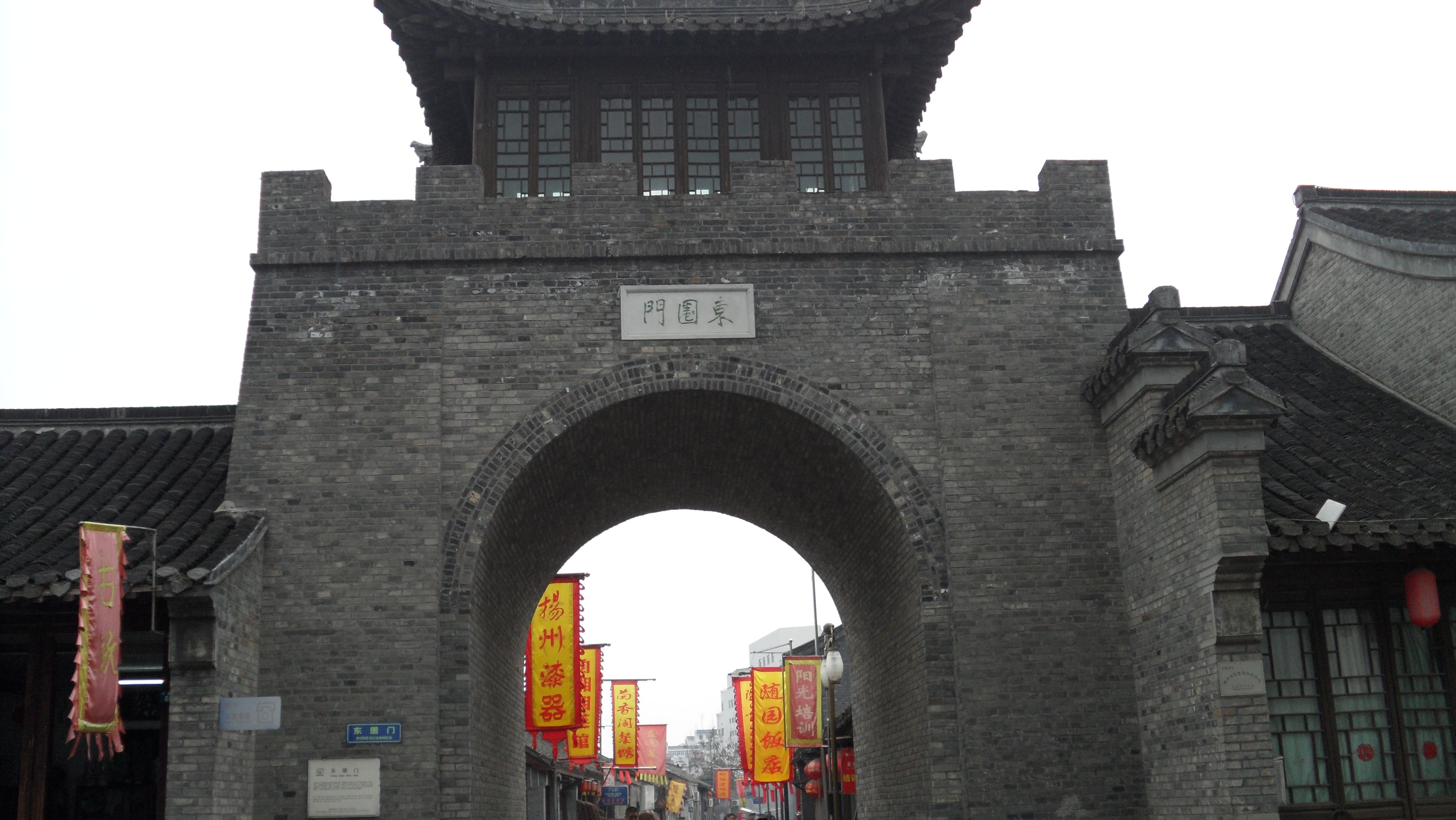 The gate of the DongGuan Street